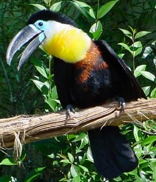 Picture of a toucan Ramphastos vitellinus